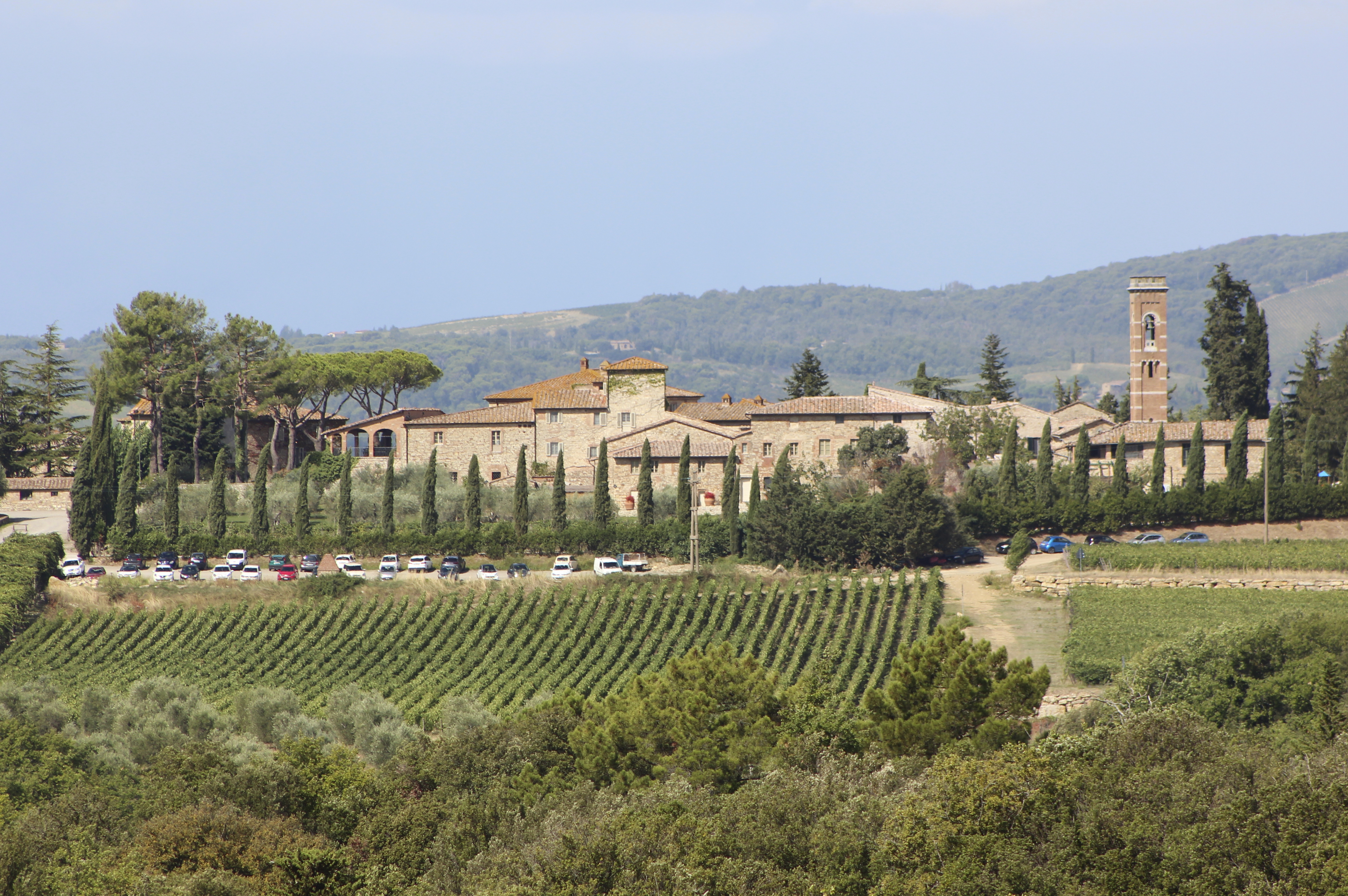 San Felice, village in the territory of Castelnuovo Berardenga, Province of Siena, Tuscany, Italy